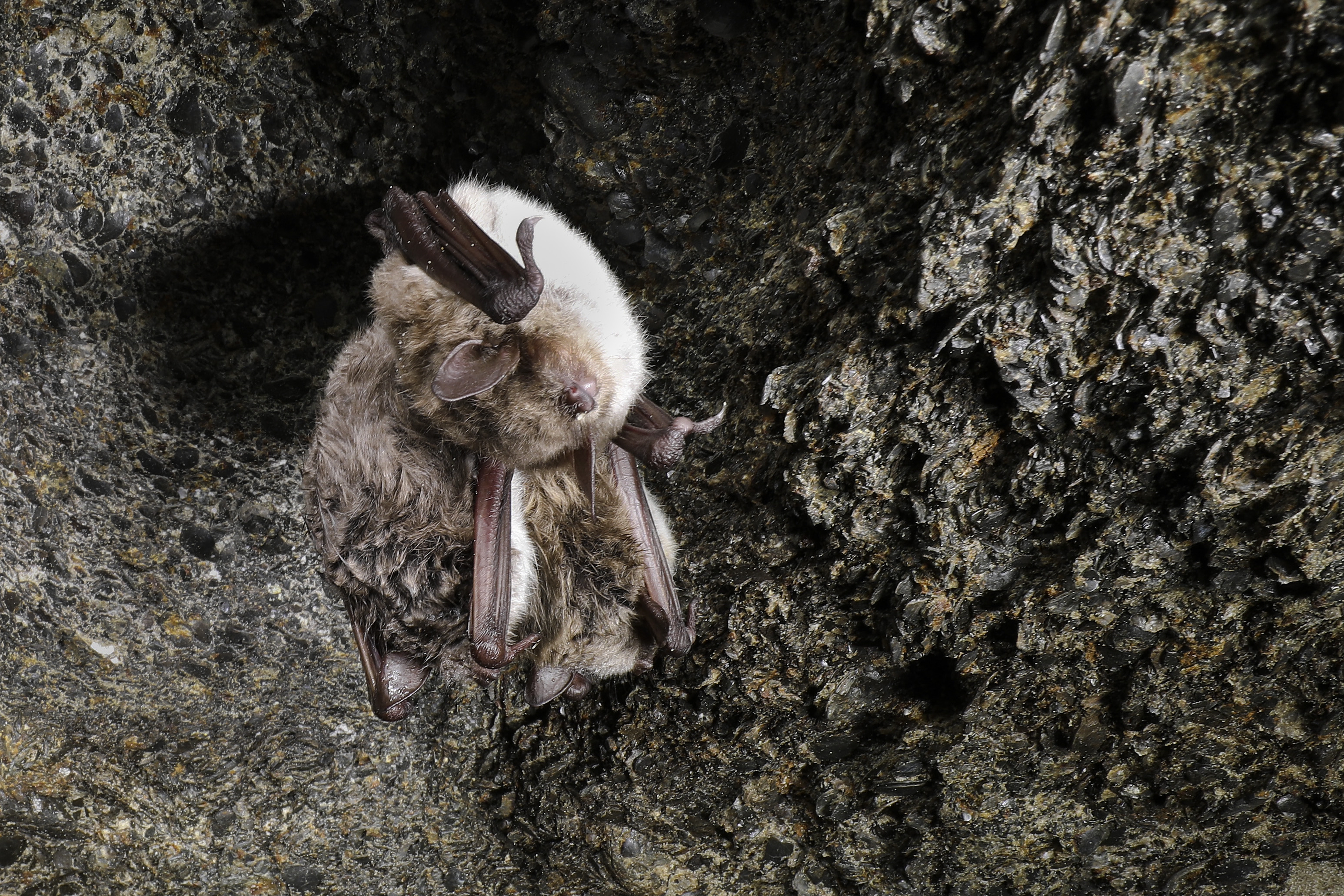 Myotis dasycneme. On the ceiling of a cave there is brachiopoda fossils - raw material for phosphor. Photographed during national monitoring.